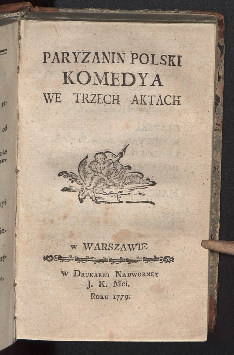 'Parisienne from Poland' - the comedy by Franciszek Bohomolec. The title page. National Library, Poland